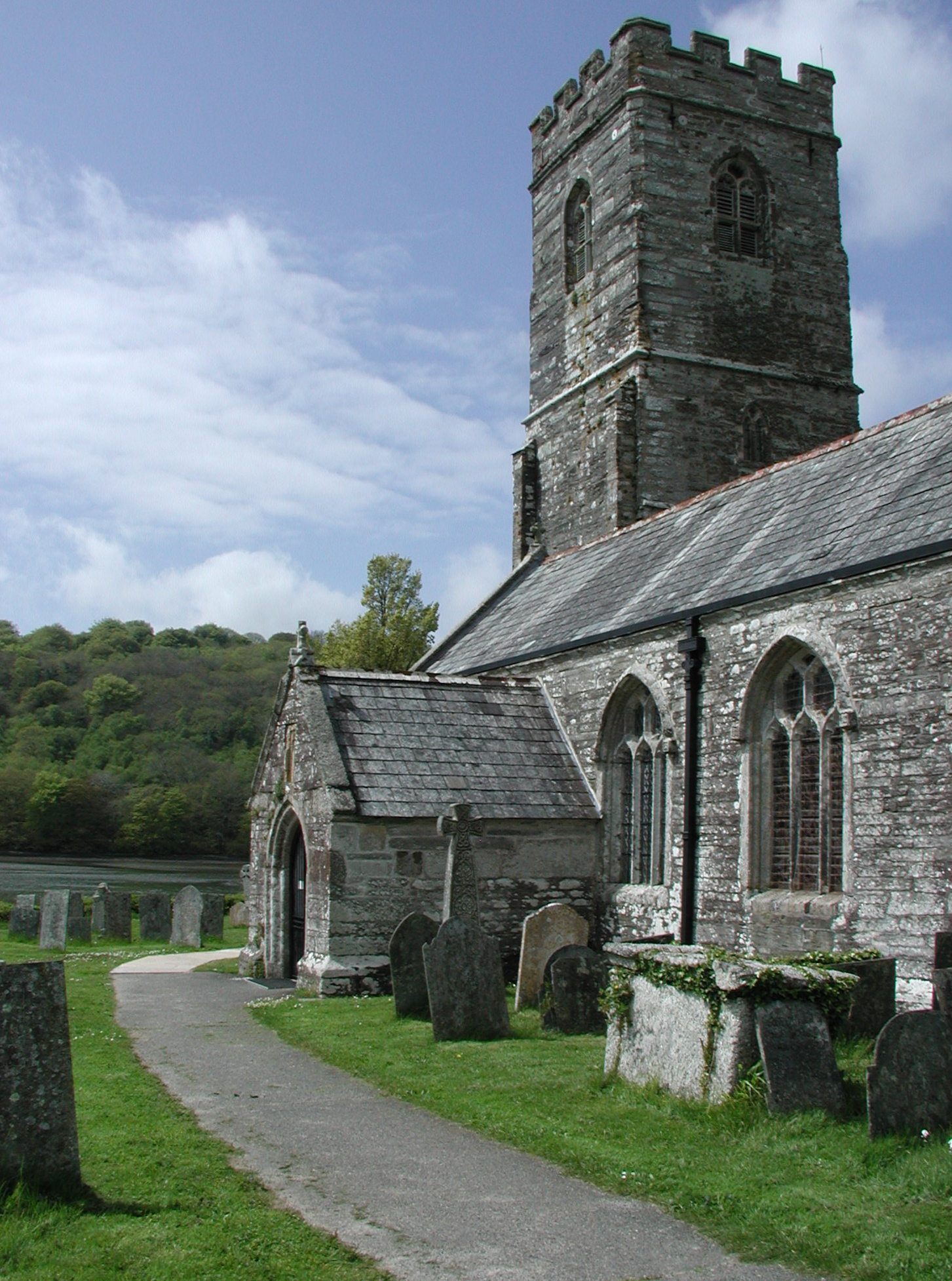 West tower and south porch of St Winnow parish church, Cornwall, seen from the southeast